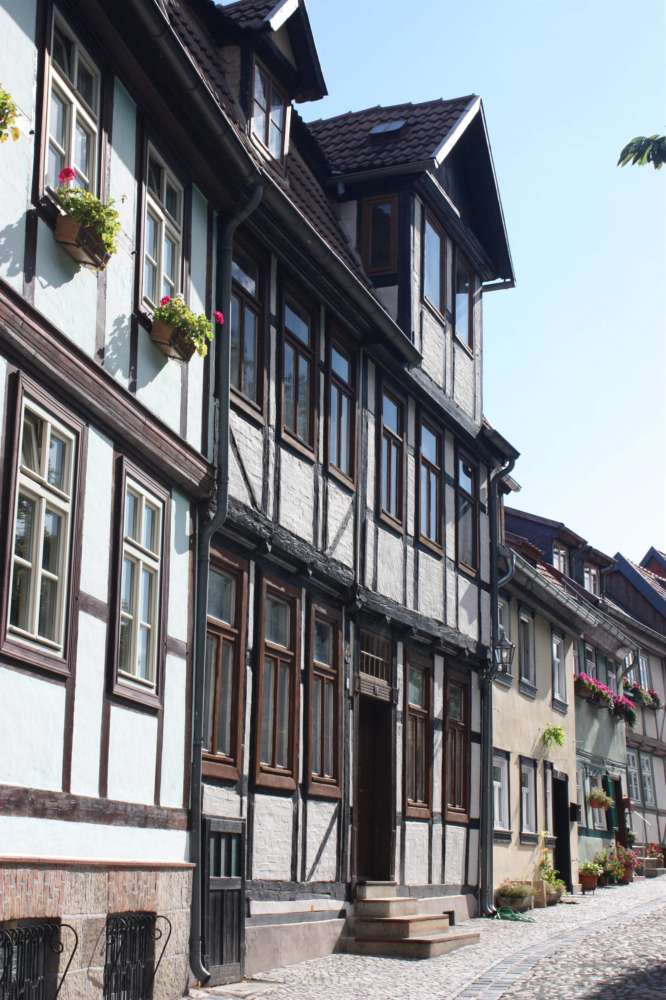 This is a photograph of an architectural monument.It is on the list of cultural monuments of Quedlinburg Quedlinburg Schloßberg